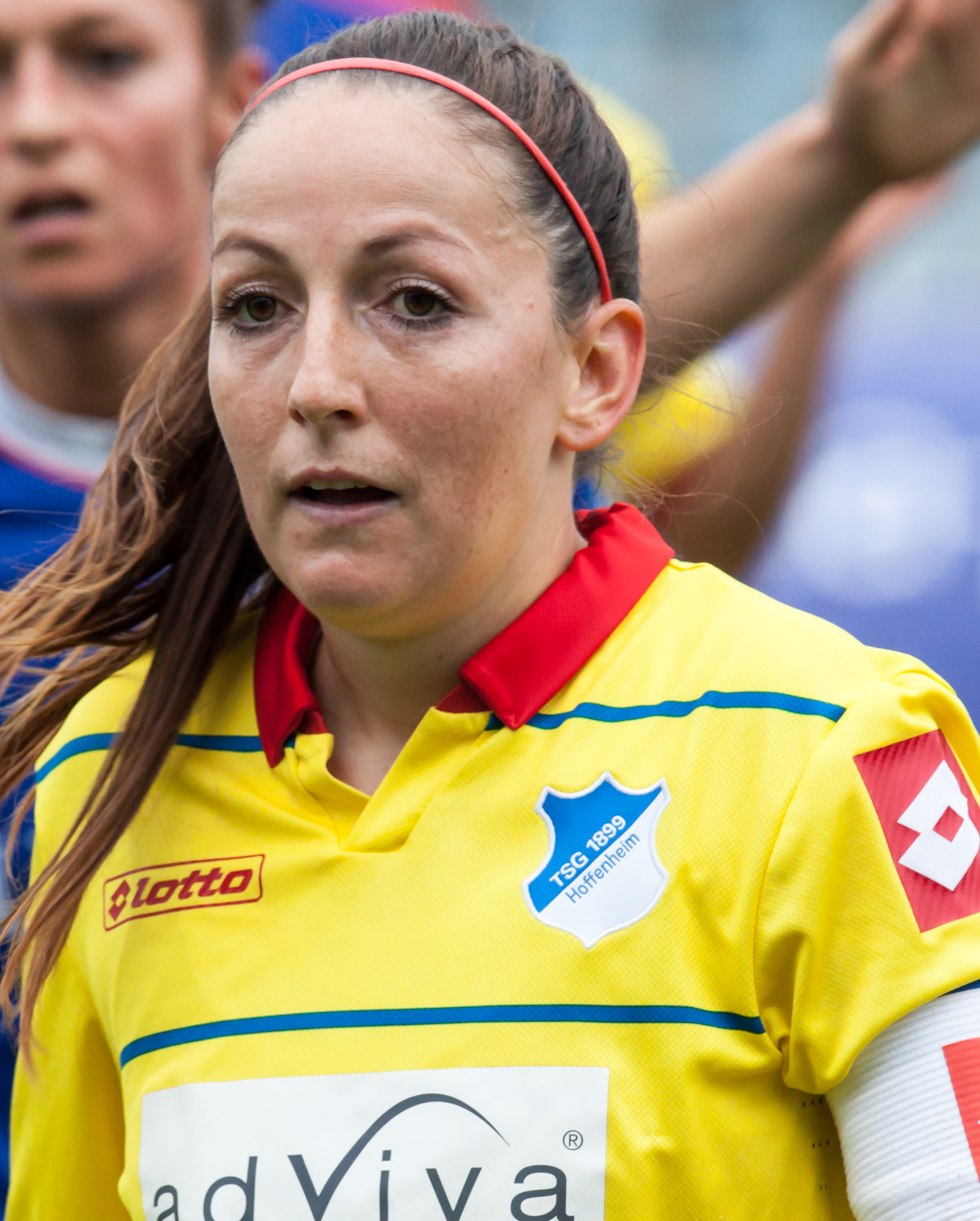 German Women Bundesliga soccer game: FF USV Jena vs. TSG 1899 Hoffenheim, 2014-10-11, at Ernst-Abbe-Sportfeld Jena.